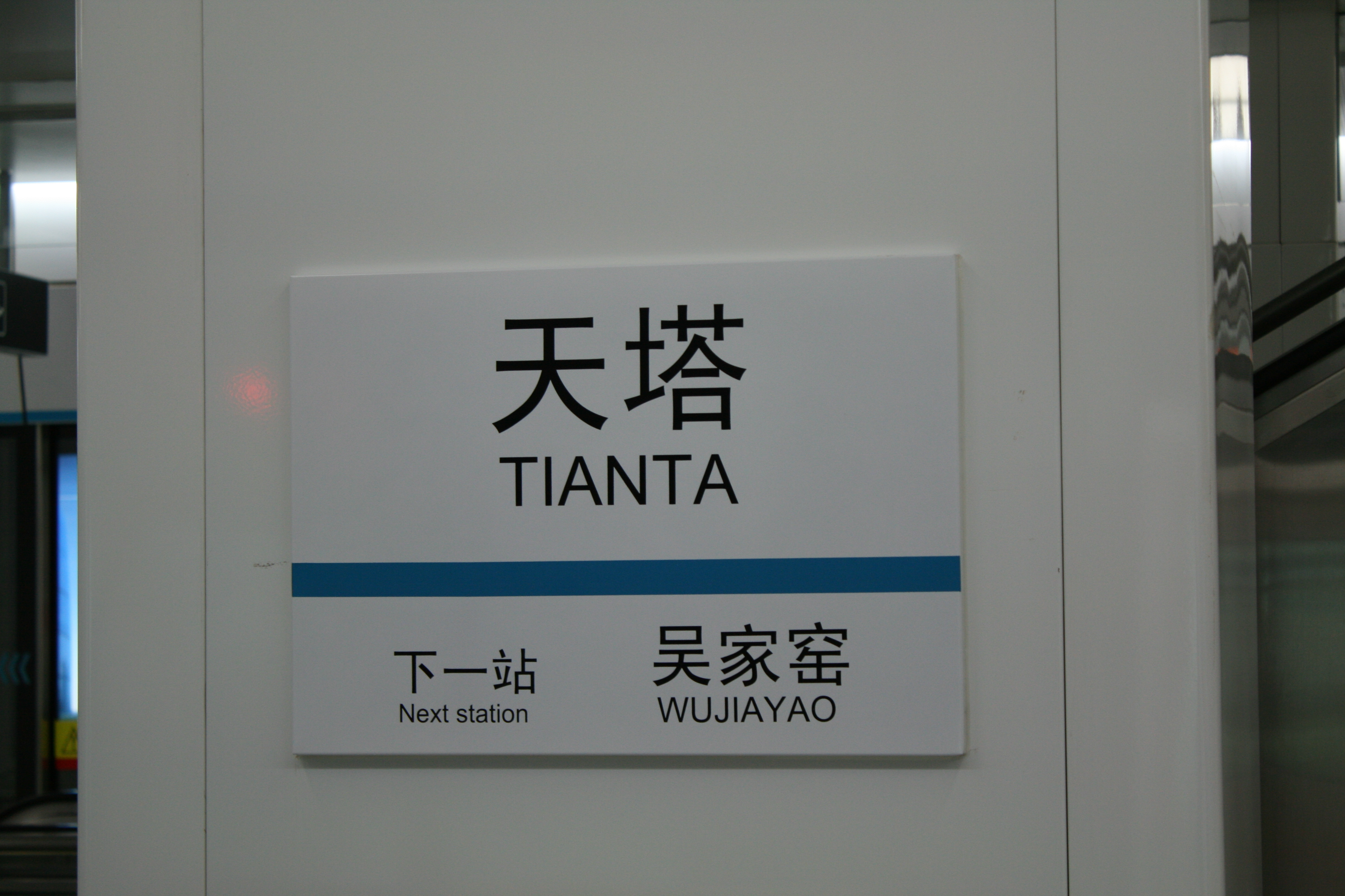 tianjin metro line 3 the TIANTA Station ...0001